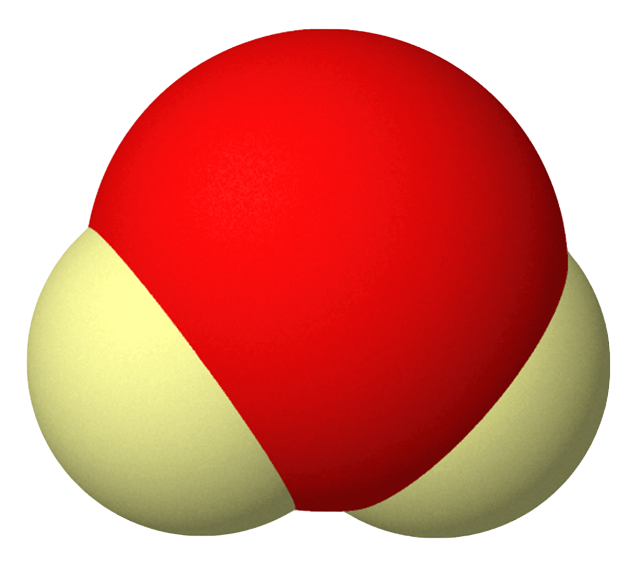 3D Spacefill of tritiated water